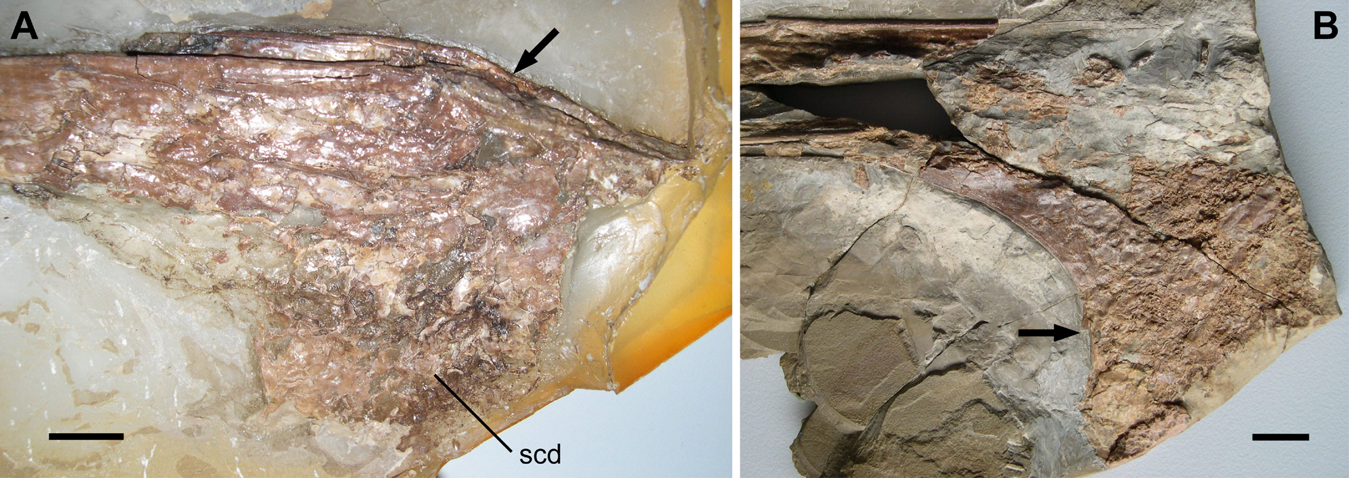 Lower jaw of Europejara olcadesorum gen. et sp. nov. (A) Close-up of the symphyseal area (acid-prepared counterslab) in right lateral view showing the typical step-like dorsal margin of the dentary in tapejarines (arrow). Note the strong lateral compression of the mandible and the trabecular structure of the sagittal crest of the dentary (scd). (B) Close-up of the best preserved margin of the dentary crest (main slab). Note the concave posterior border (arrow) giving the peculiar recurved aspect of the dentary crest of Europejara. scd, sagittal crest of the dentary. Scale bars: 10 mm.